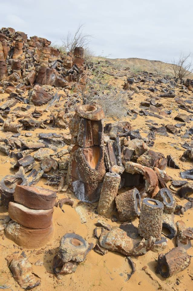 Pieces of fossilized trees in Jaraquduq